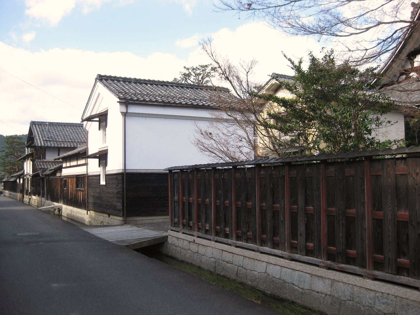 The Tembin dori street in Gokashokondo-cho, Higashiomi, Shiga, Japan